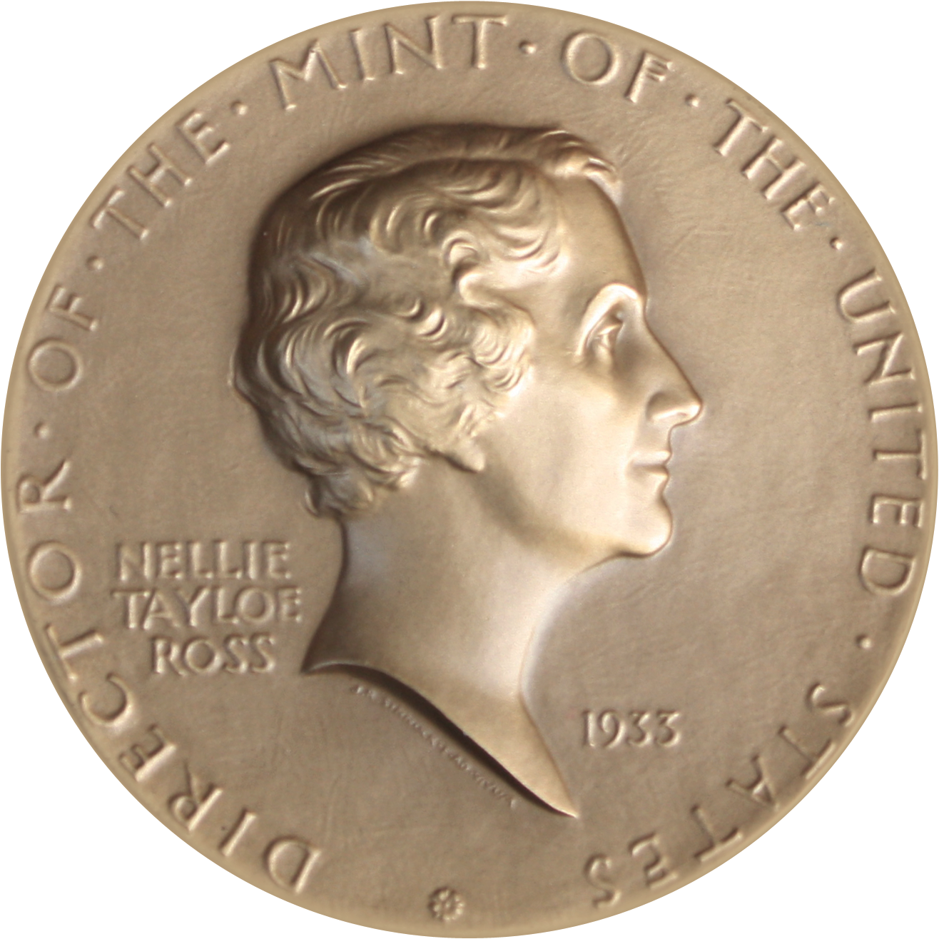 Medal honoring Director of the United States Mint Nellie Tayloe Ross